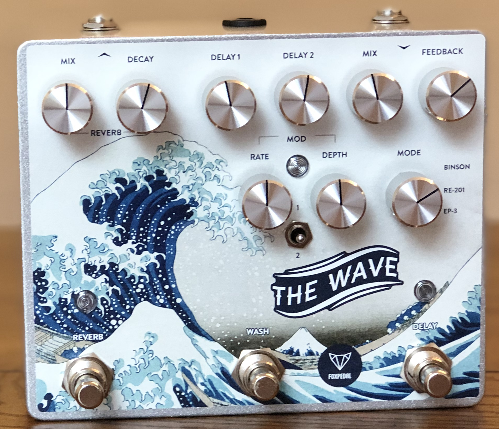 Foxpedal The Wave, a reverb, delay and modulation pedal with an emphasis on vintage, tape delay. Inside is a mix of analog circuits with digital control. The artwork is based on The Great Wave off Kanagawa by Hokusai